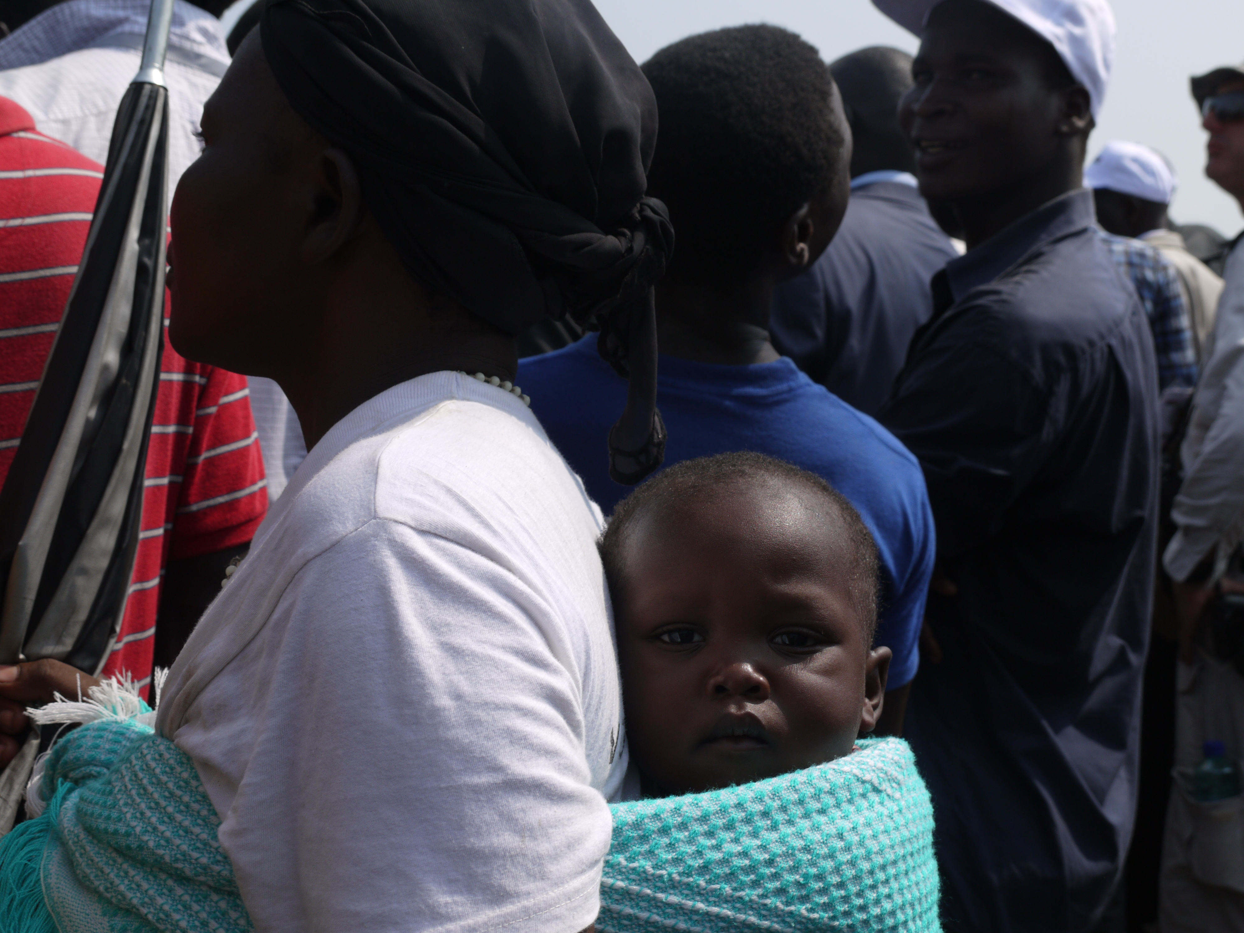 Sarah Taylor/USAID. Learn more about USAID's work in South Sudan on our website